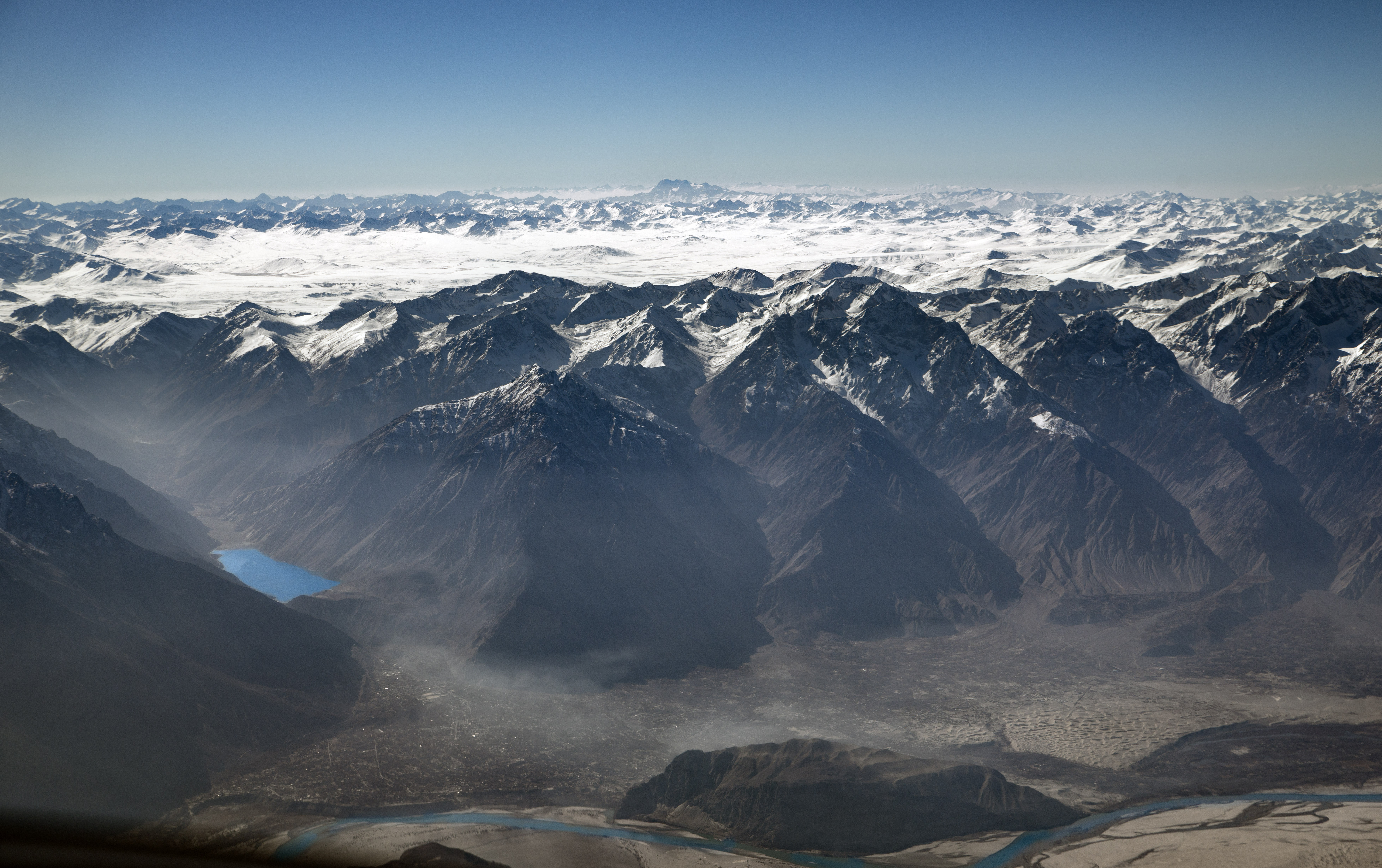 Photo taken from 21,000 ft AMSL during flying. It includes Indus River, Khorpochu Hill, Skardu City, Sadpara Lake and Deosai Plains. In the far distance Harmukh peak can also be seen.